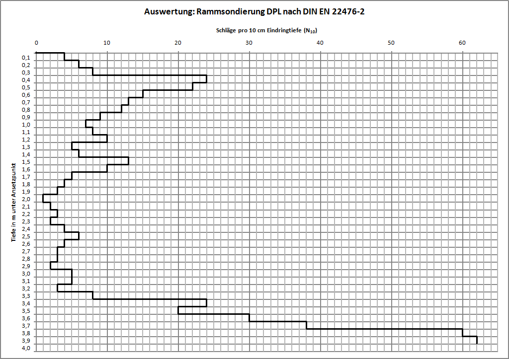 Evaluation of a dynamic probing light (DPL) after DIN EN 22476-2. Vertical axis: Depth in m under starting point. Horizontal axis: Hits needed for 10 cm penetration (N10).